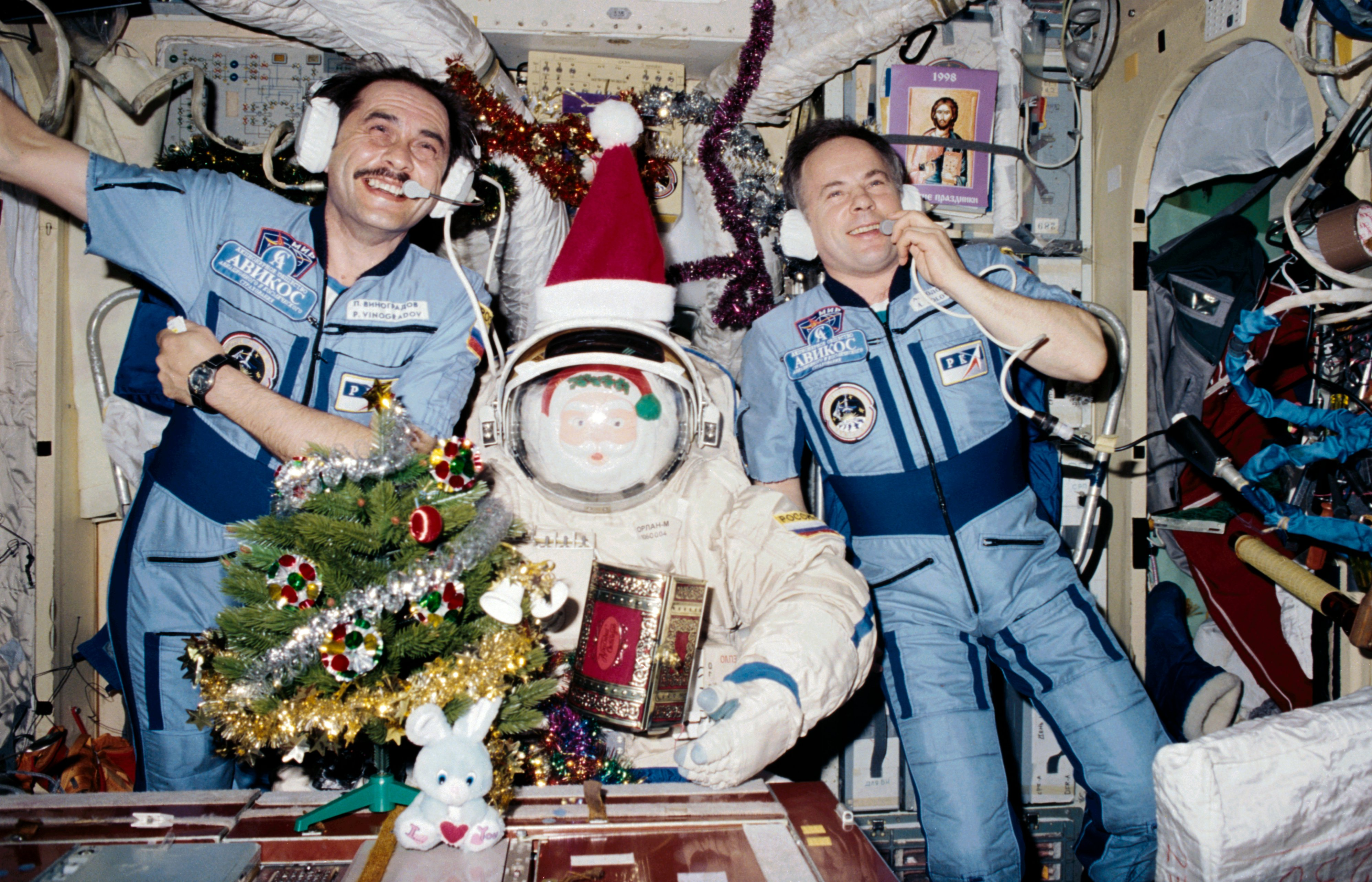 View taken during the Christmas holiday onboard the Mir Space Station during NASA 6. View is of Mir 24 crewmembers Flight Engineer Pavel Vinogradov and Commander Anatoly Solovyev posing with a santa doll in a Orlan spacesuit, small tree, decked boughs, and floating presents.